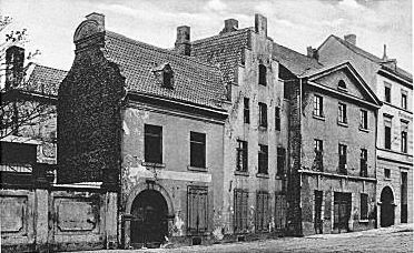 t